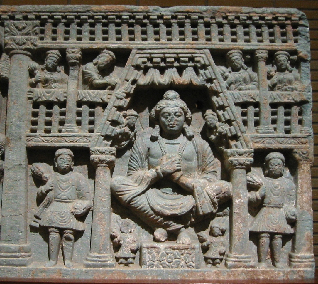 Maitreya and Kushans devotees. 2nd century Gandhara. Tokyo National Museum. Personal photograph 2005.